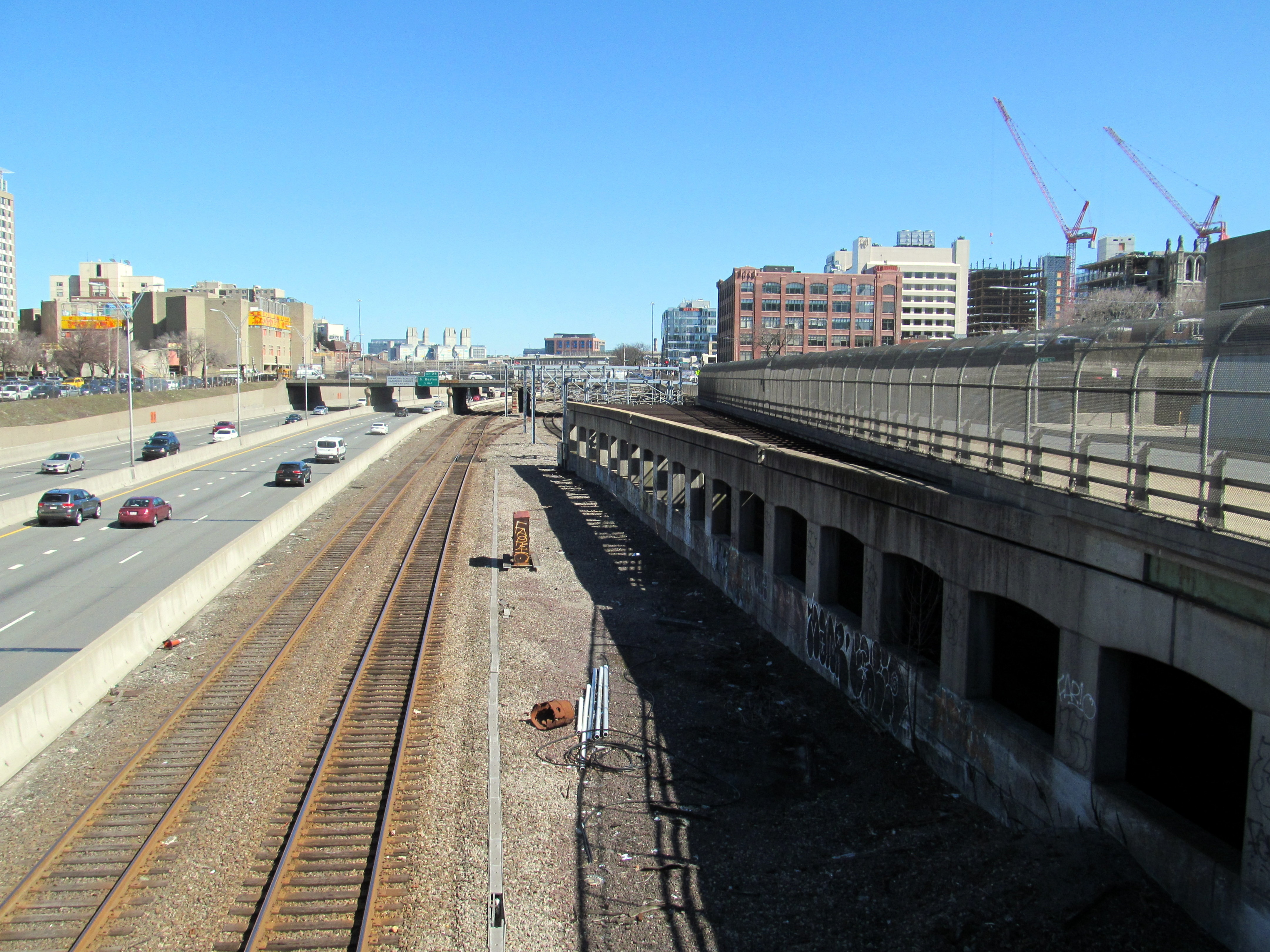 View of the Worcester Line and the Mass Pike east of Tremont Street in March 2017. If the North-South Rail Link is built, the Back Bay portal for the Northeast Corridor and the Worcester mainline would be located here.